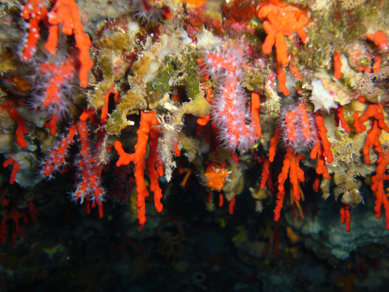 Corallium rubrum, Portofino, Italy (Depth: 27 m)